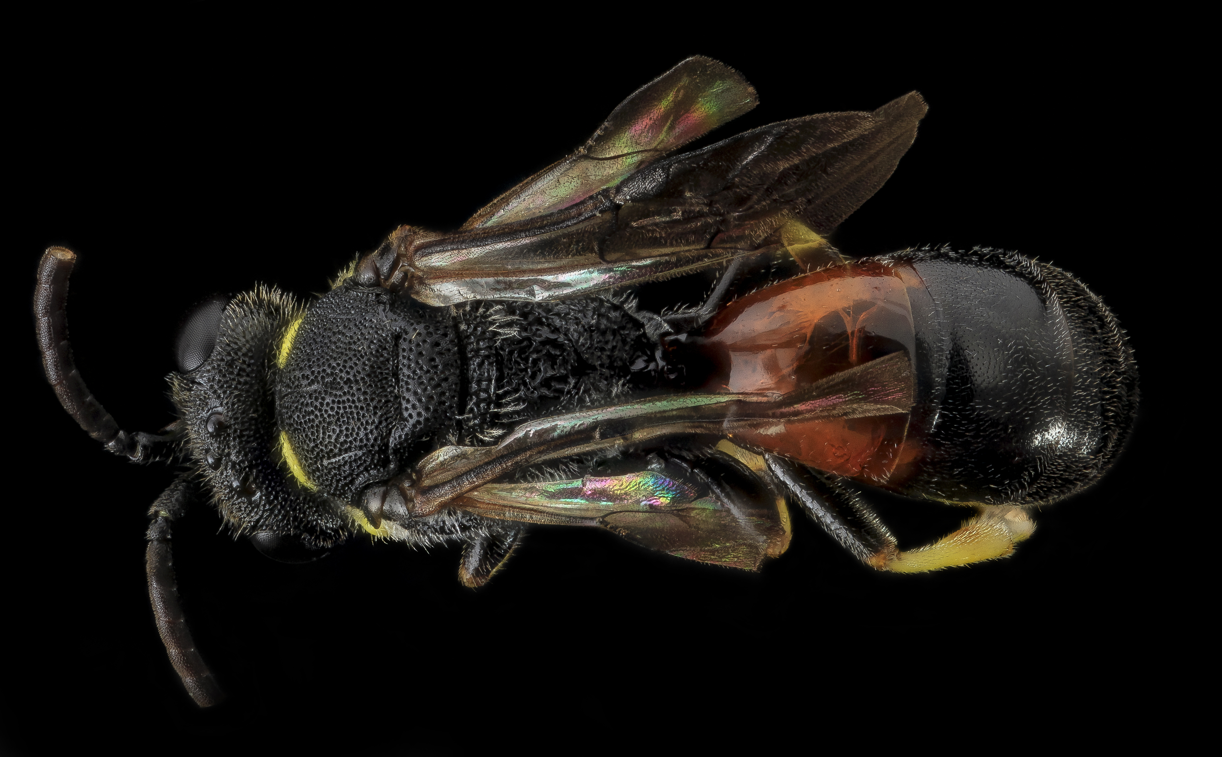 A wetlands bee, usually with red on the basal segments of the abdomen but not always. The males with extensive yellow on their faces. Here from the marshes of Kent County, Maryland